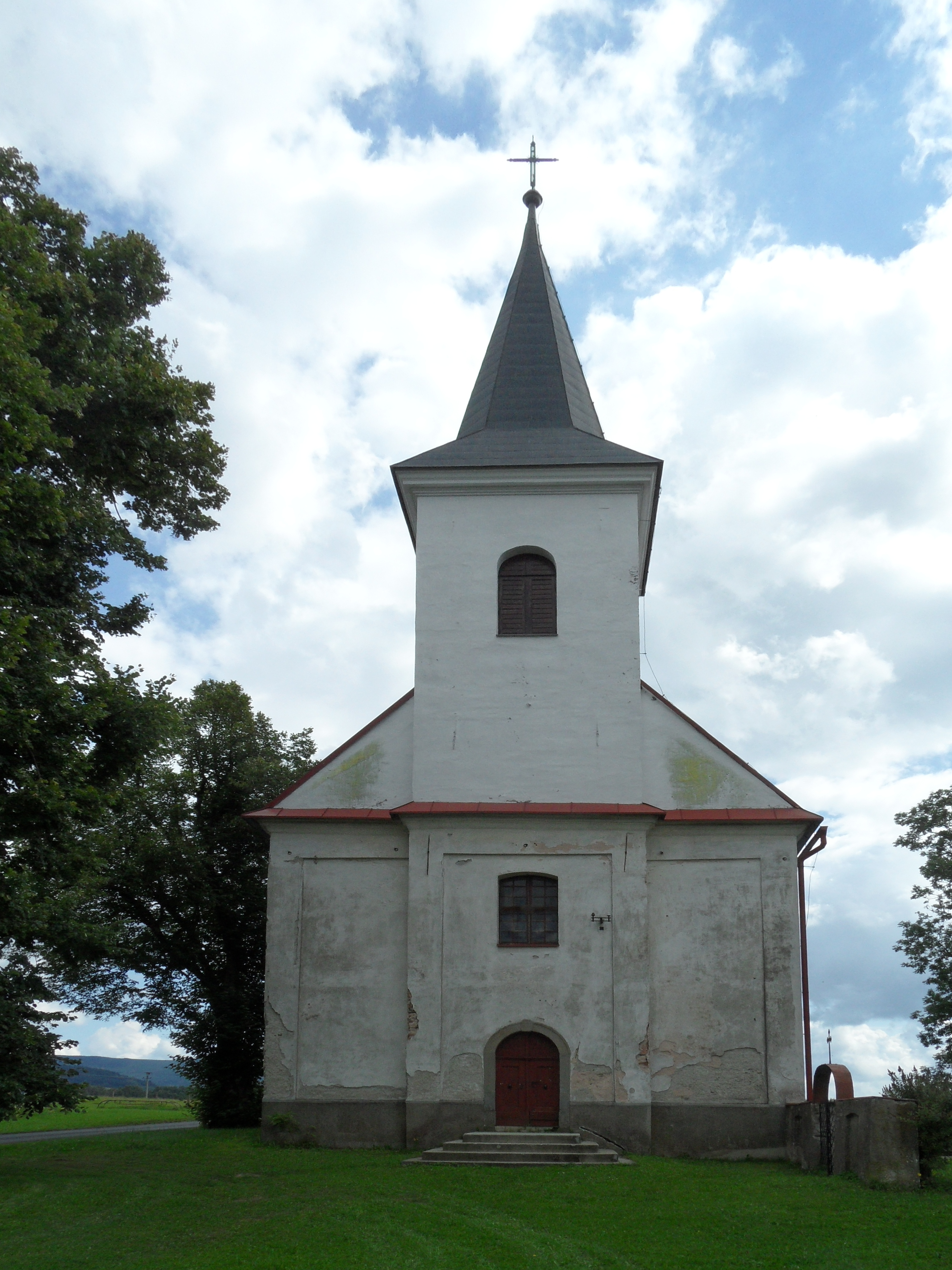 Horní Lipka (Králíky) B. Church of Saint Anne, Frontal View, Ústí nad Orlicí District, the Czech Republic.